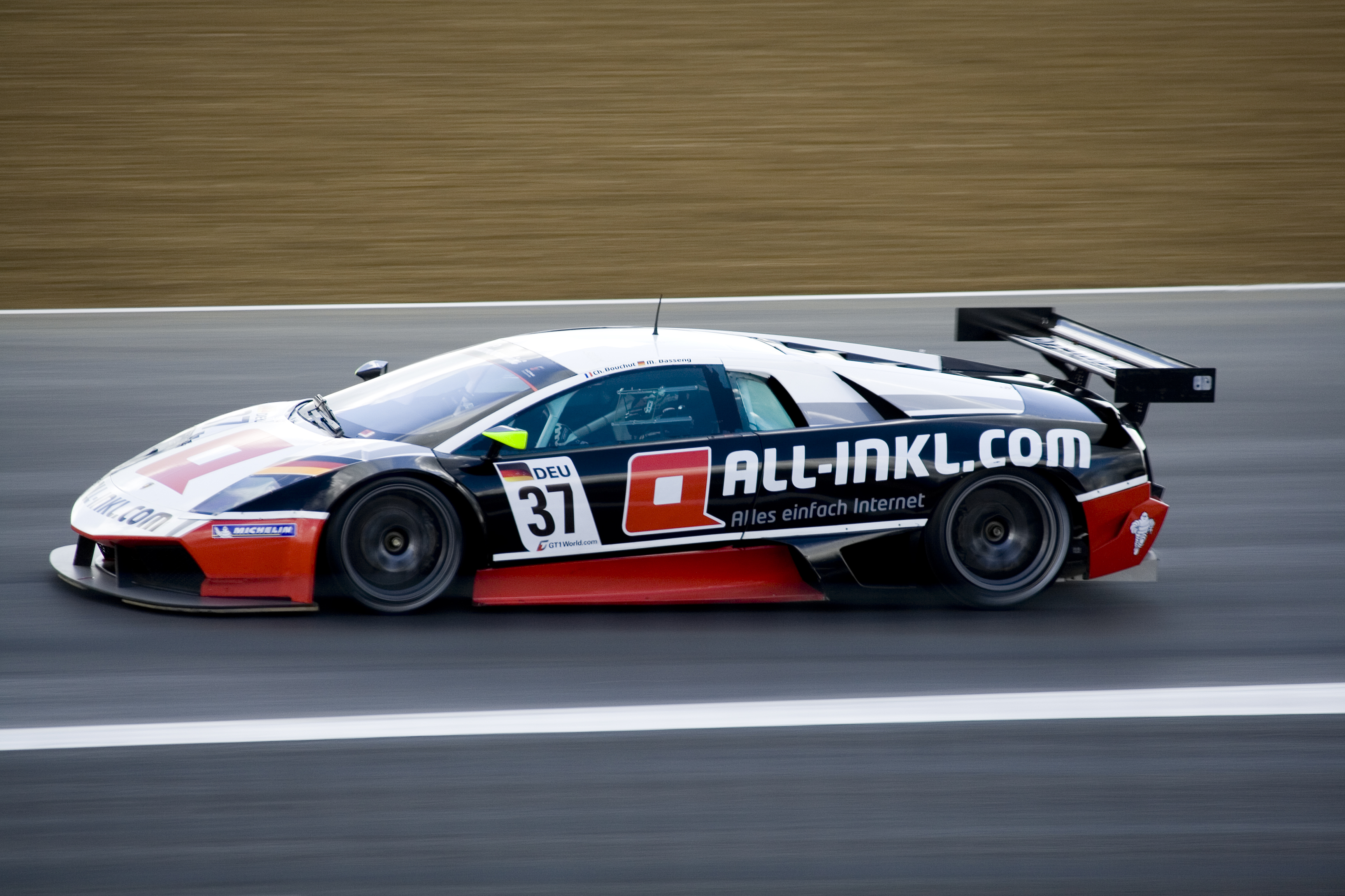 FIA GT1 Qualifying - Lamborghini Murcielago LP670 R-SV ( Munnich Motorsport)